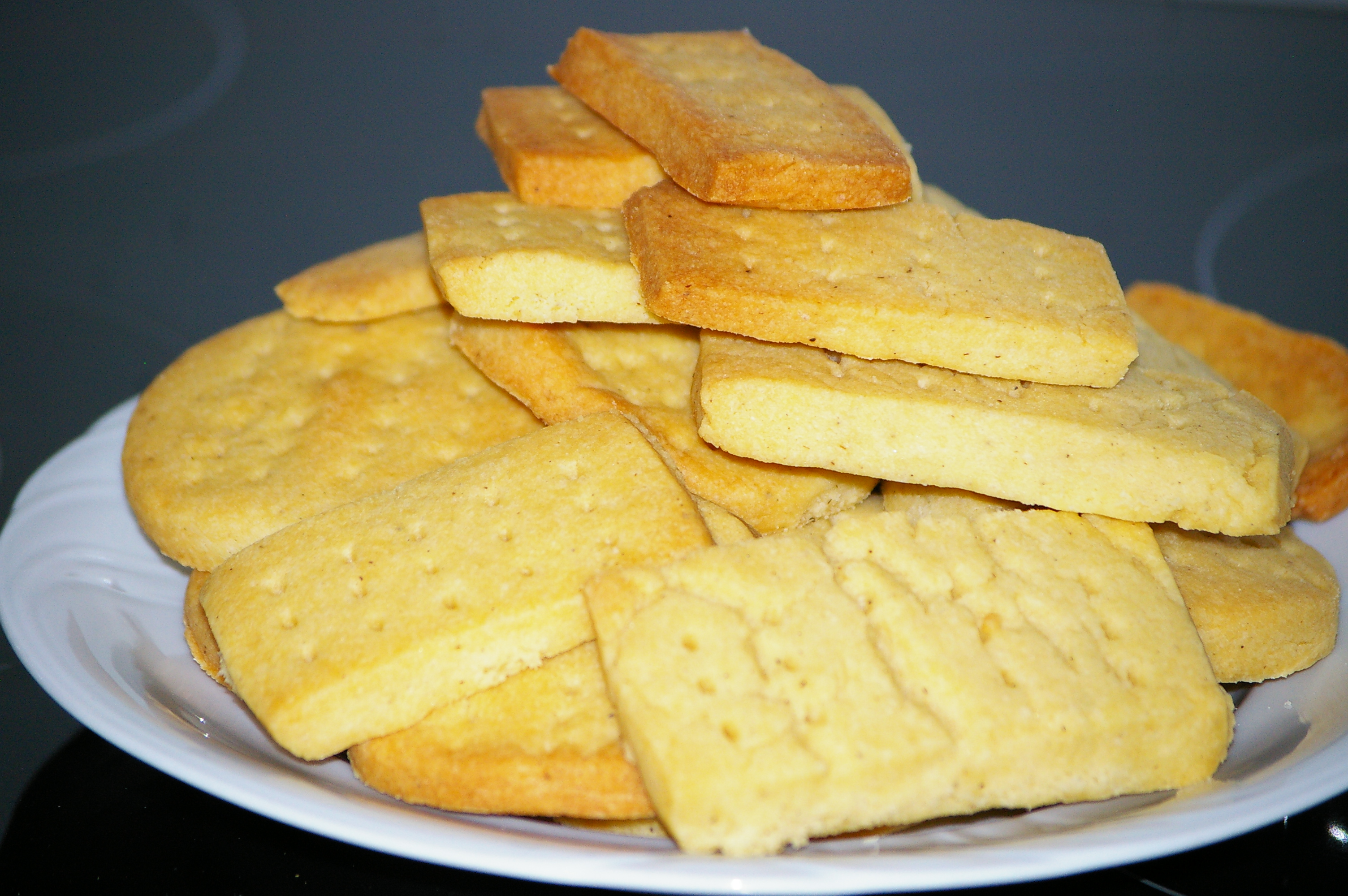 Shortbread